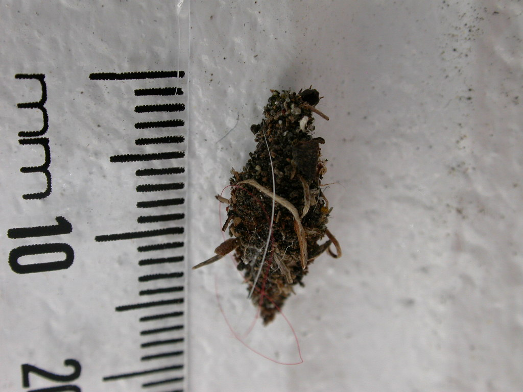 Cebysa leucotelus, larva in case, to light, Browns Bay, New Zealand, 31 October 2004